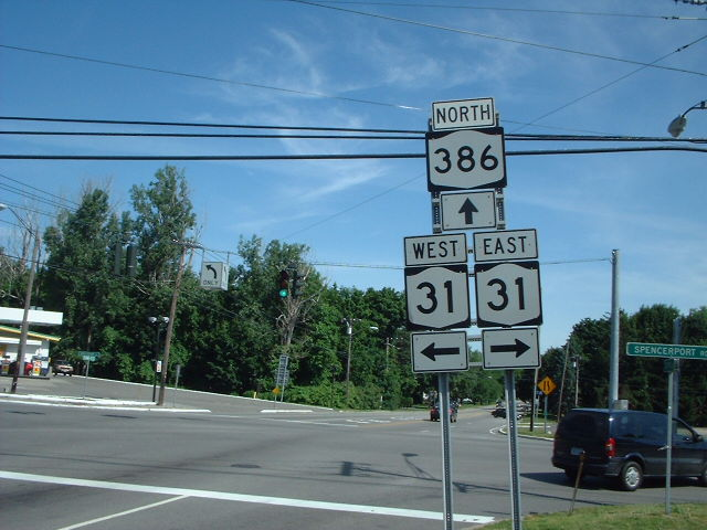 Northbound New York State Route 386 at New York State Route 31 in Gates. This junction was the southern terminus of NY 386 from the 1930s to the 1970s.